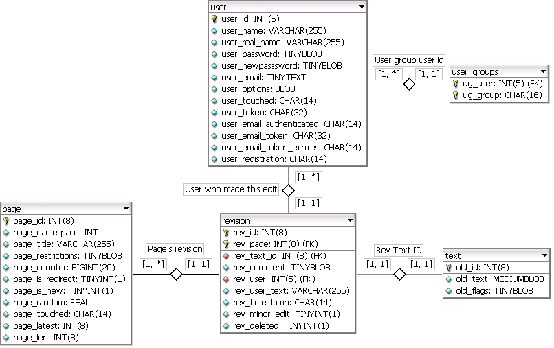 An entity-relationship diagram describing a wiki system (a part of MediaWiki database schema).